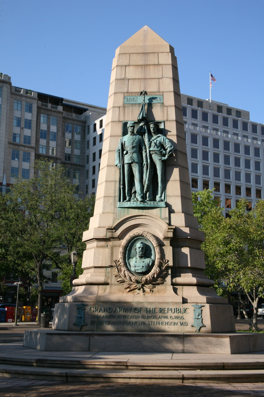 Grand Army of the Republic. The memorial specifically honors their founding member Dr. Benjamin Franklin Stephenson of Decatur, Illinois.